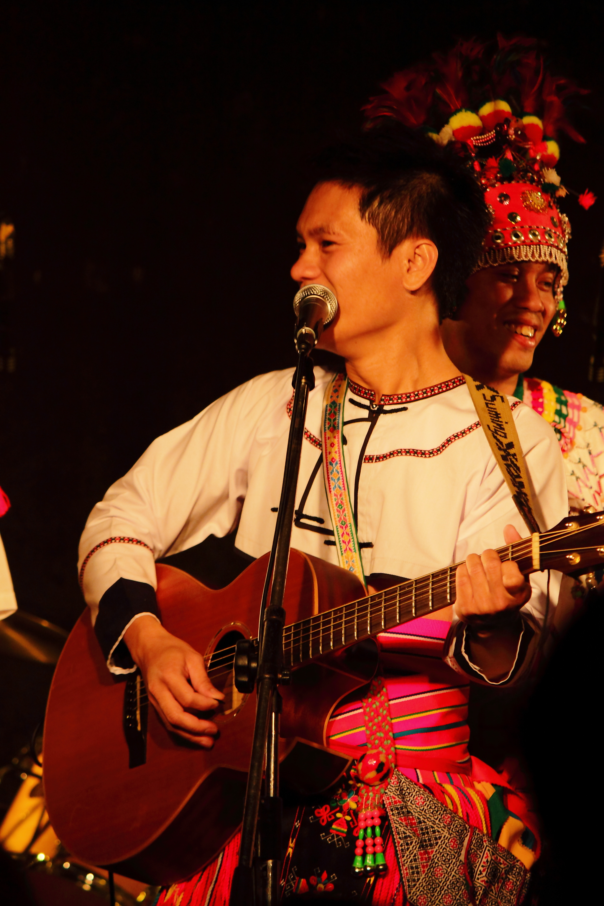 Suming Rupi at his album "Suming" release party in The Wall live house in Taipei Taiwan